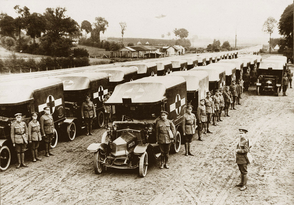 Ambulances were donated to the war effort from across the British Empire. Wealthy individuals, businesses, trade unions, charities, hunts, worshipful companies, churches and many others paid for ambulances. Manufacturers of ambulances included Rolls-Royce, Daimler, Albion, Morris, Vulcan, Austin, Sunbeam-Rover, Wolseley, Siddeley-Deasy, Renault, Buick, Crossley, Vauxhall, Argyll, Sunbeam, Lanchester, Ford Model T, Fiat and Star.